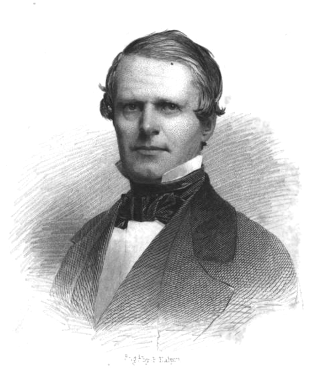 Engraving of American novelist, minister, and Transcendentalist Sylvester Judd. Slightly adjusted for brightness/contrast. From Life and Character of the Rev. Sylvester Judd by Arethusa Hall. Published by Crosby, Nichols, and company, 1854.